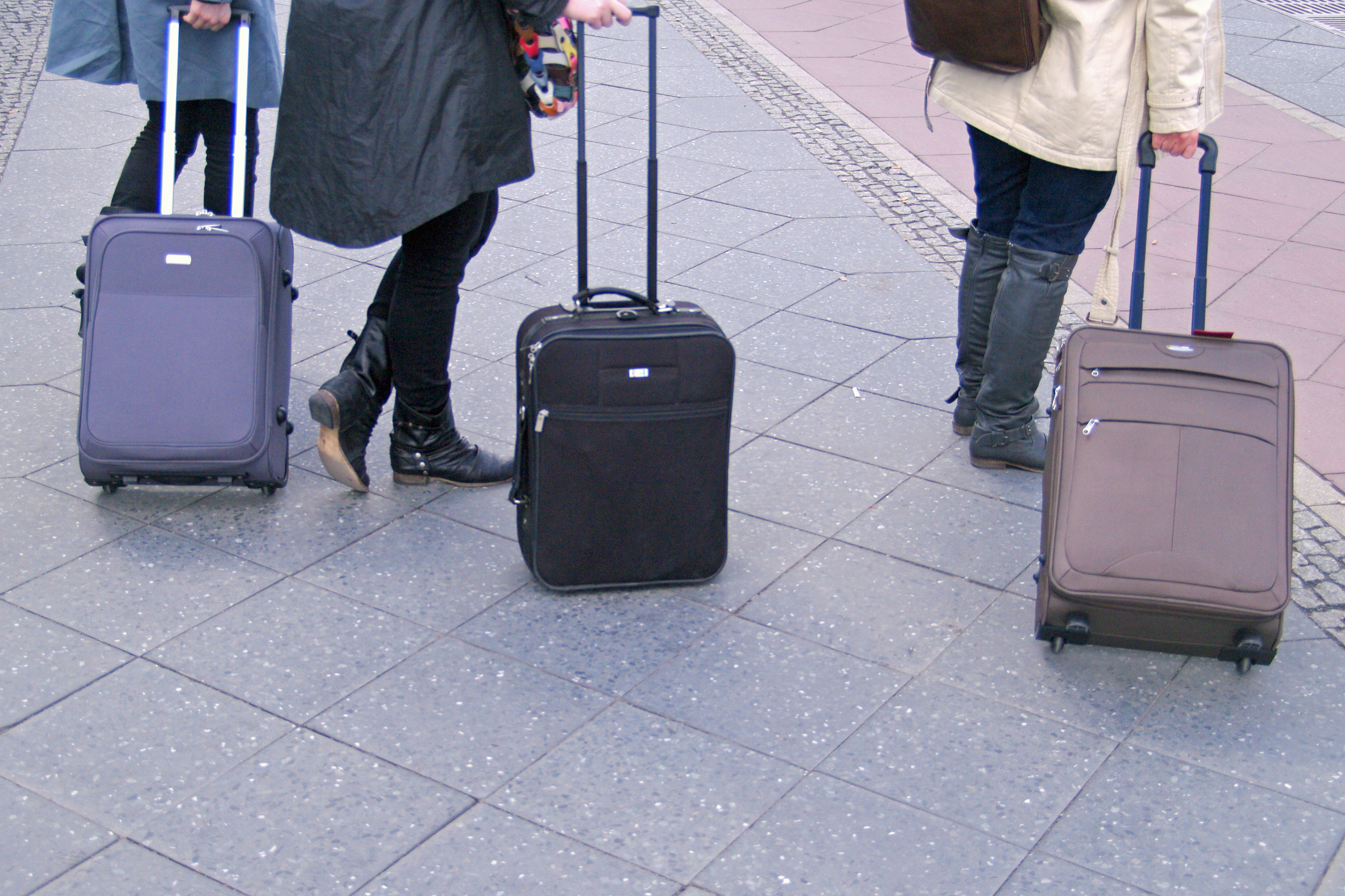 Three trolley suitcases in front of the Berlin Hauptbahnhof.